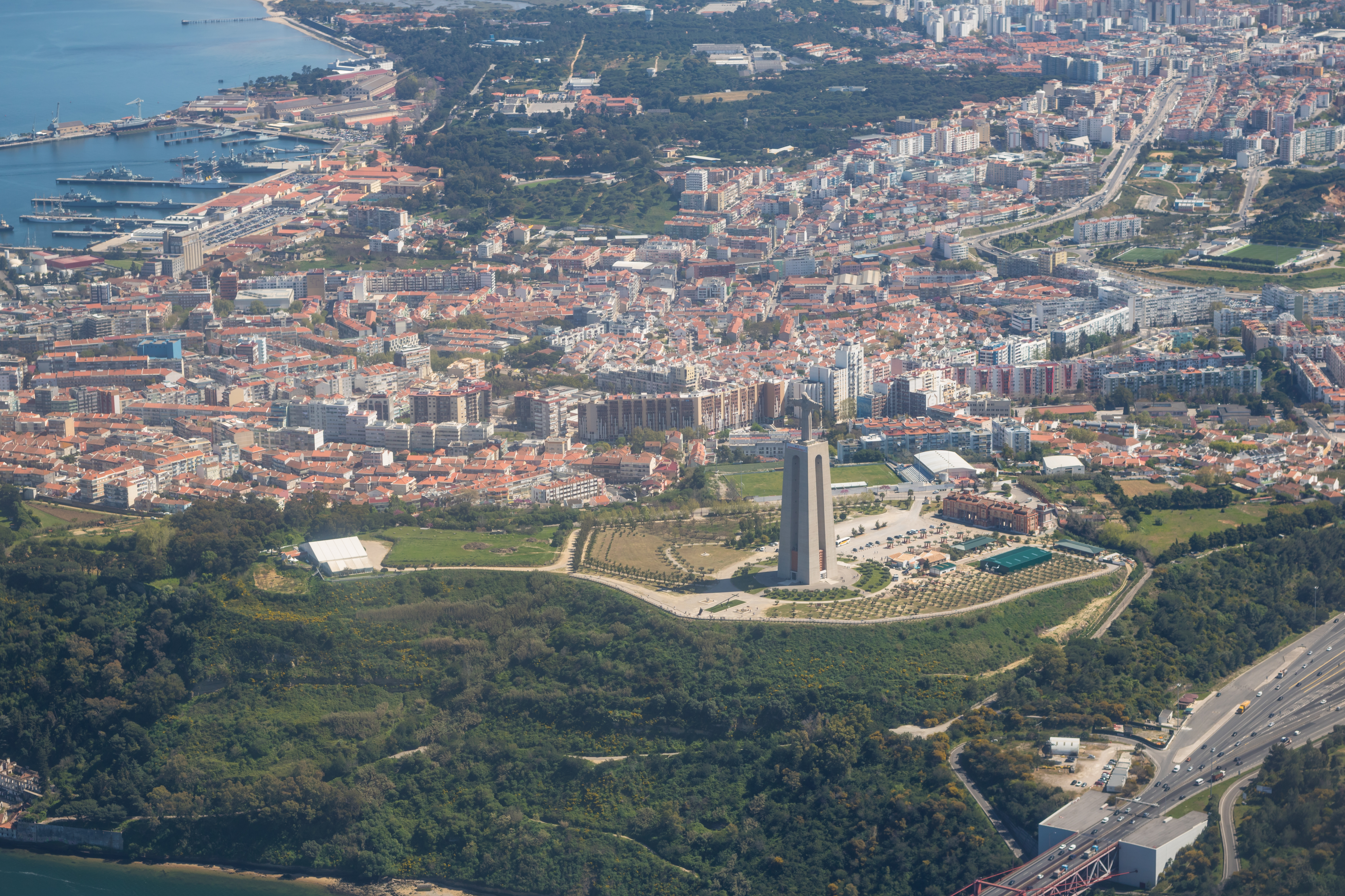 Lisbon from above